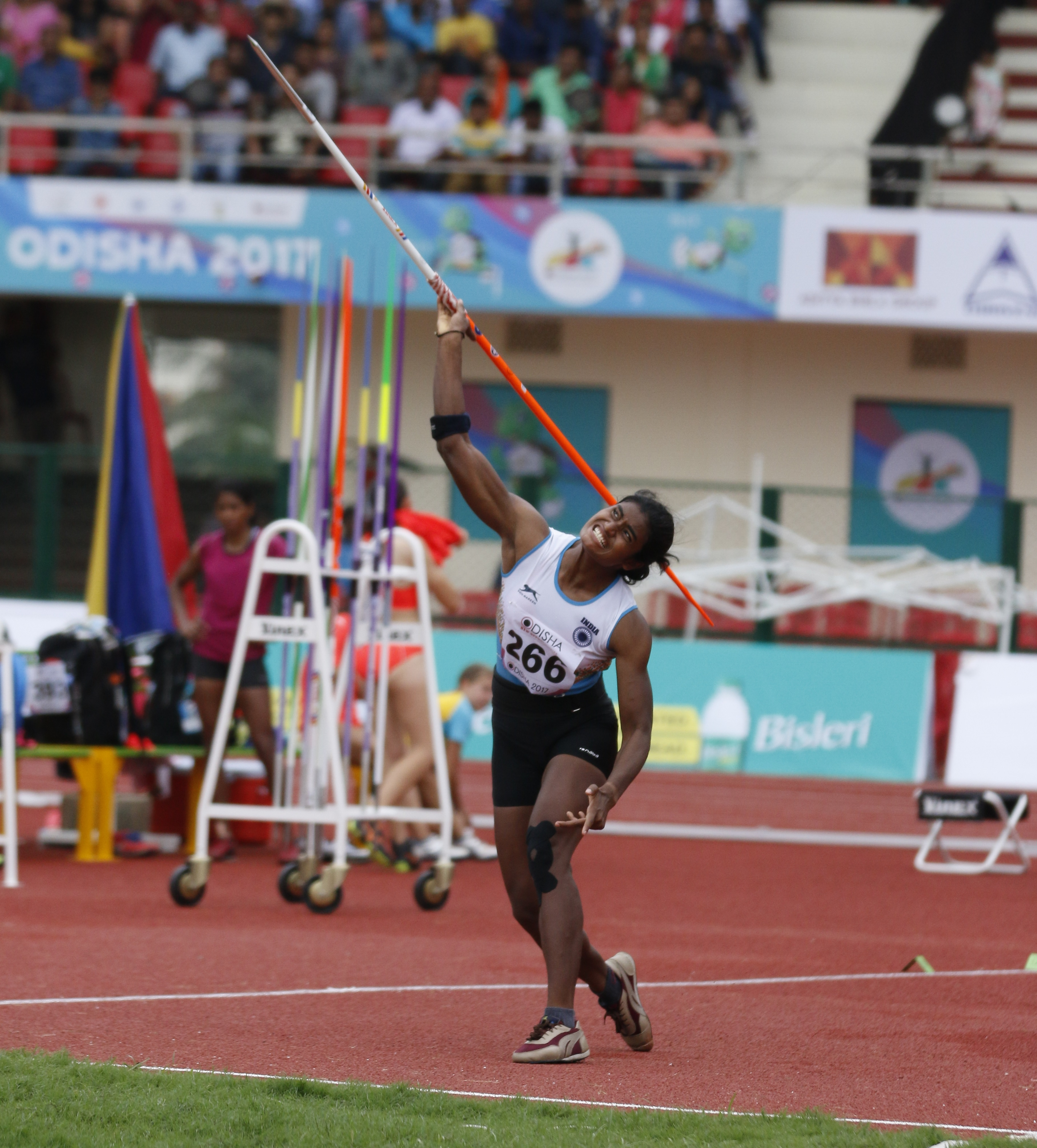 Athletes during 22nd Asian Athletics Championships in Bhubaneswar.